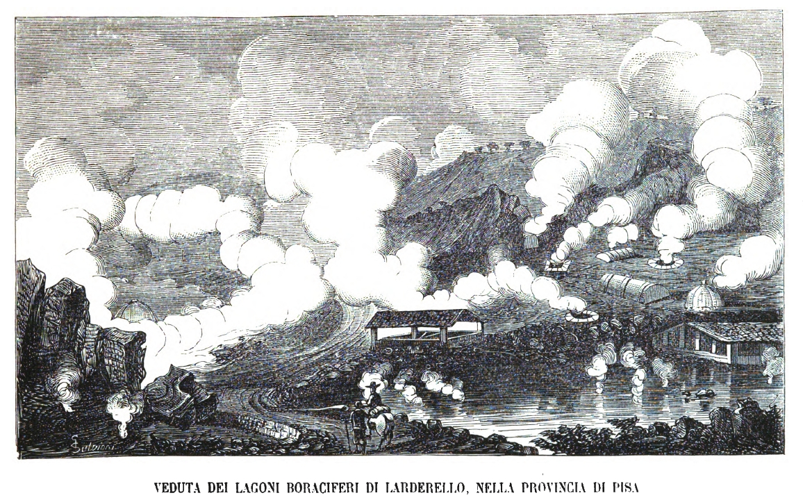 Landscape of Larderello tuscany Italy in 1868